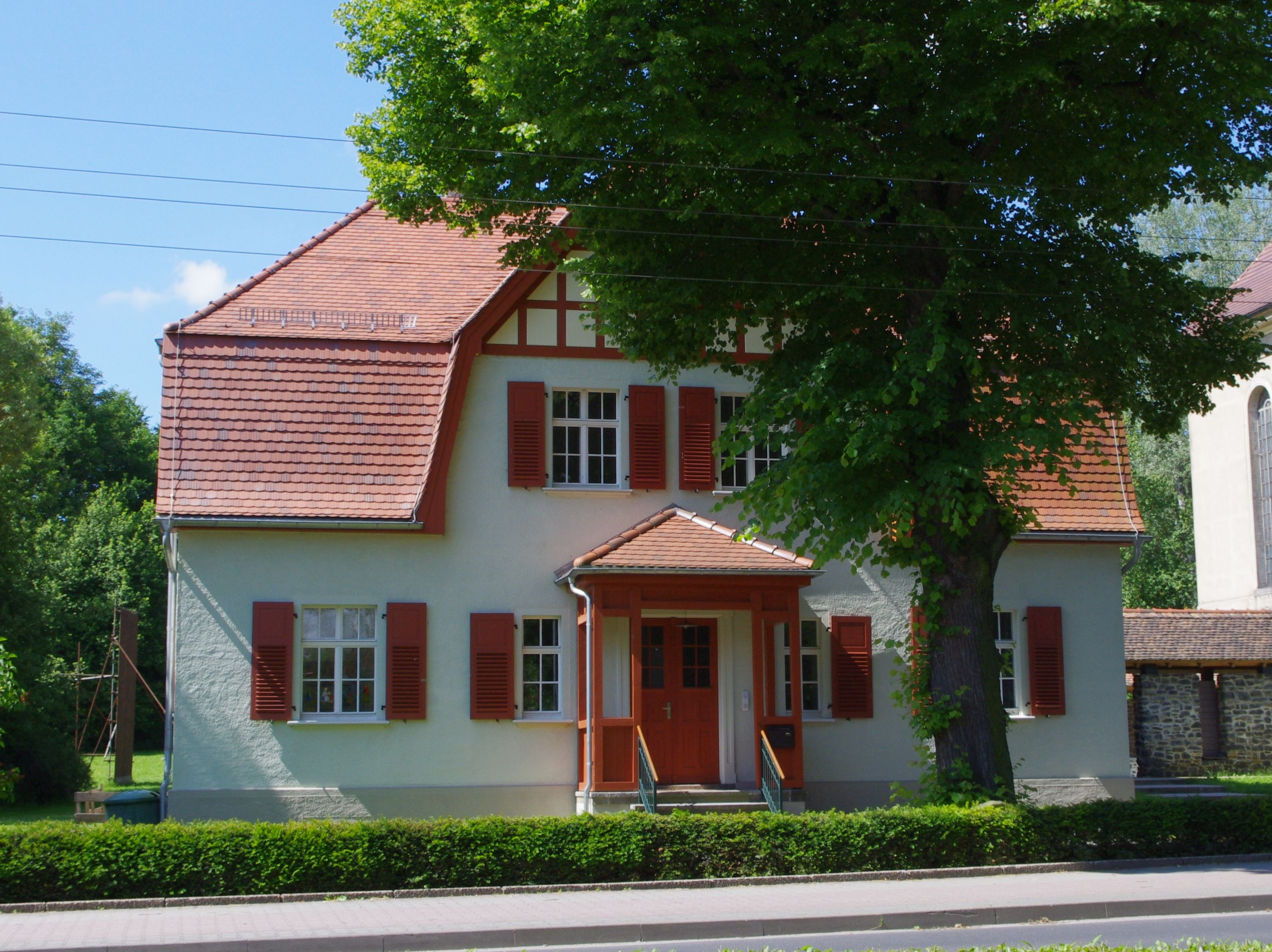 The Lutherhaus in Oderwitz.